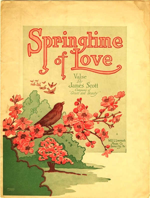 Springtime Of Love, 1918